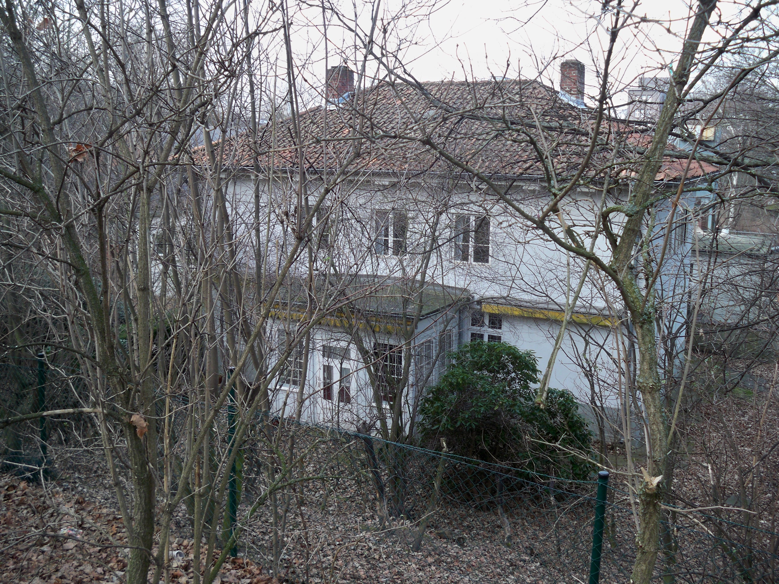 Braunschweig, Lower Saxony, Haeckels Gartenhaus, formerly part of Theaterpark